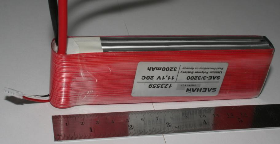 Photo of a typical Lithium-Polymer battery used for RC models. For illustrating the LiPo page on wikipedia.